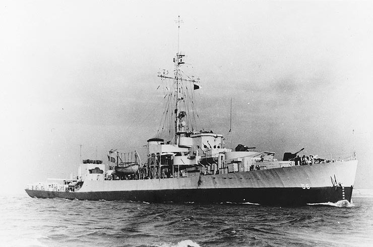 The U.S. Navy patrol frigate USS Covington (PF-56) underway at sea, in 1945. She is painted in Camouflage Measure 22.